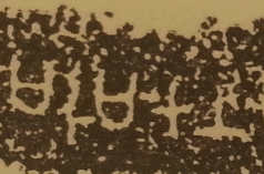 Marumakan